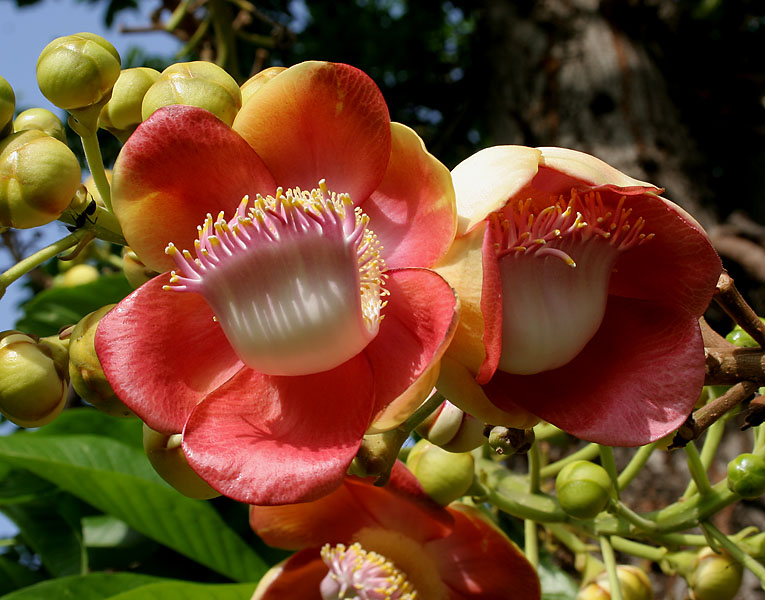 Naglingam Couroupita guianensis in Hyderabad , India.